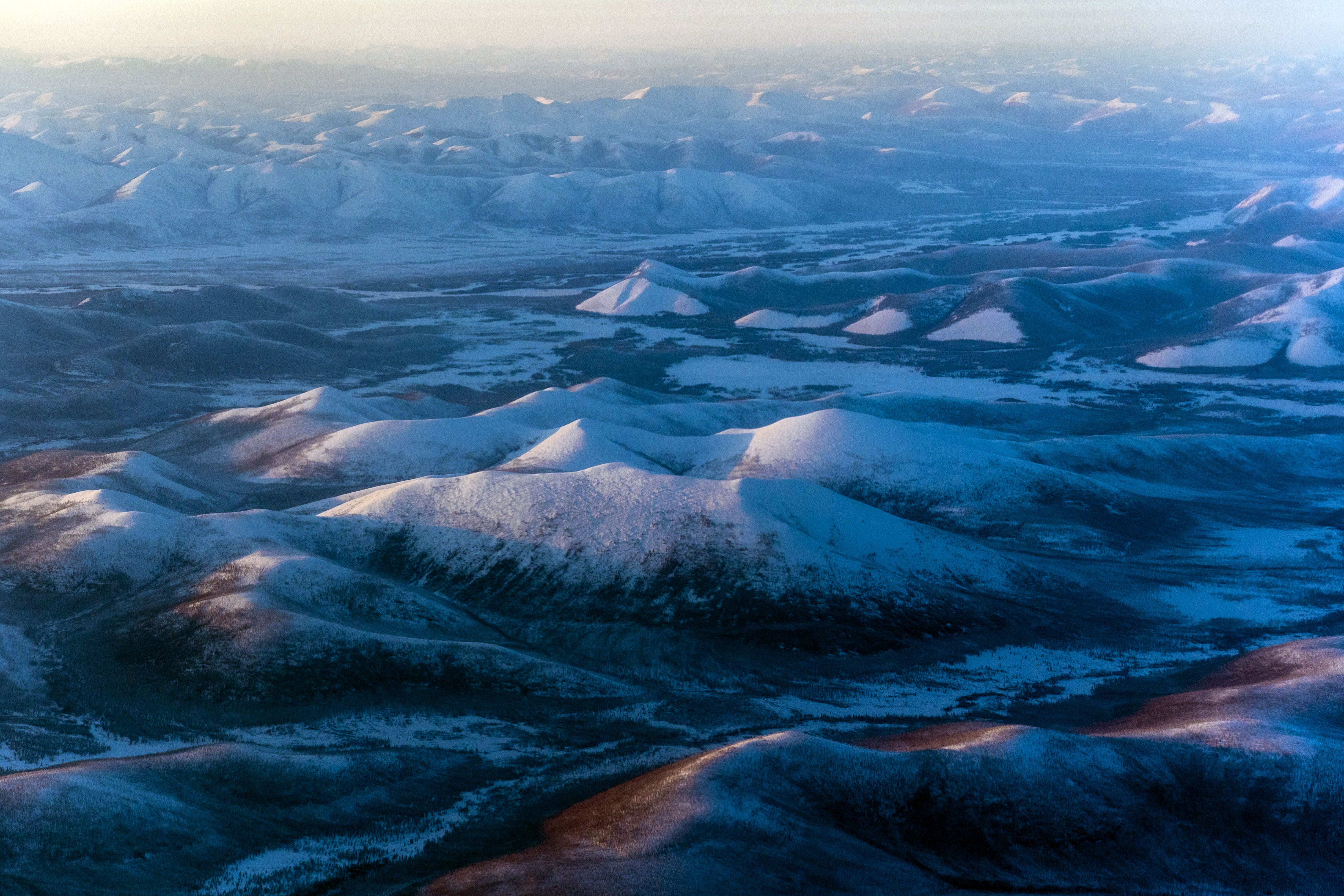 Verkhoyansk Range, Republic of Sakha (Yakutia)